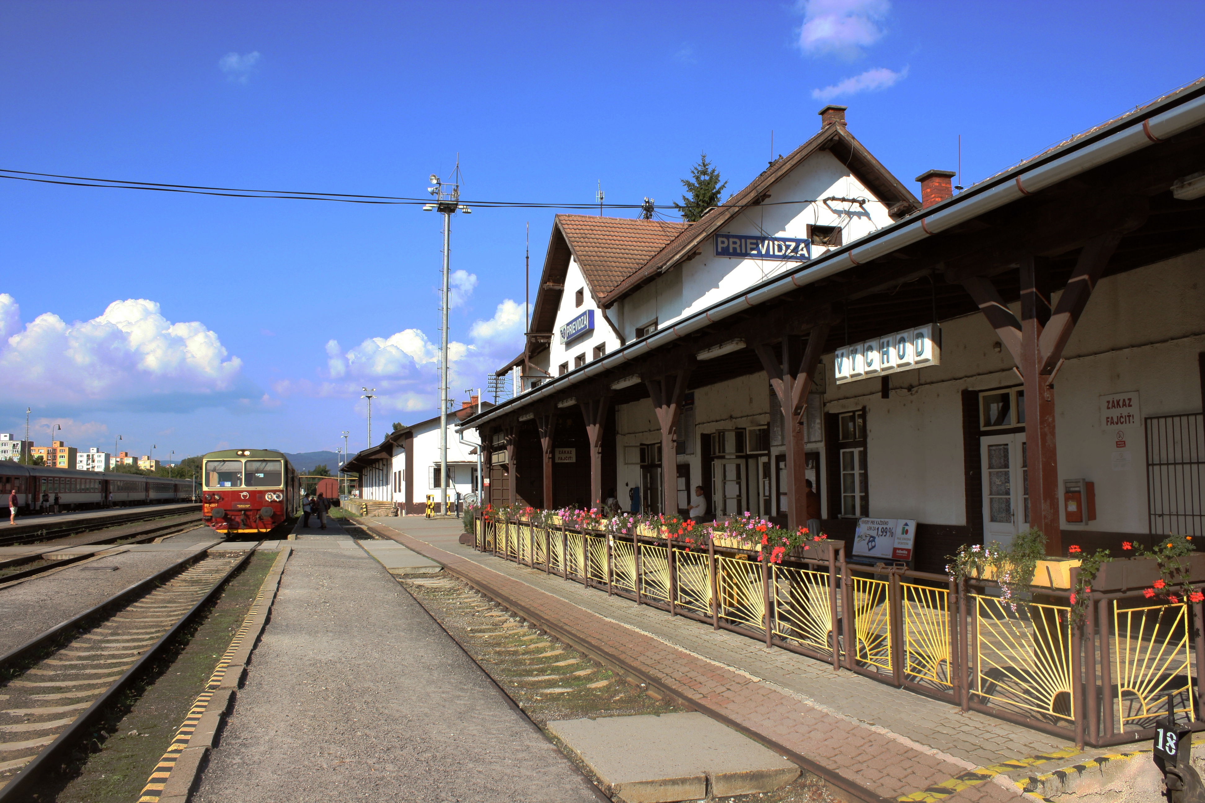 Building and railyard of railway station in Prievidza, Slovakia, with railcar ZSSK 810 450-7 on second track.